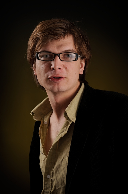 Jan Sklenar - portrait